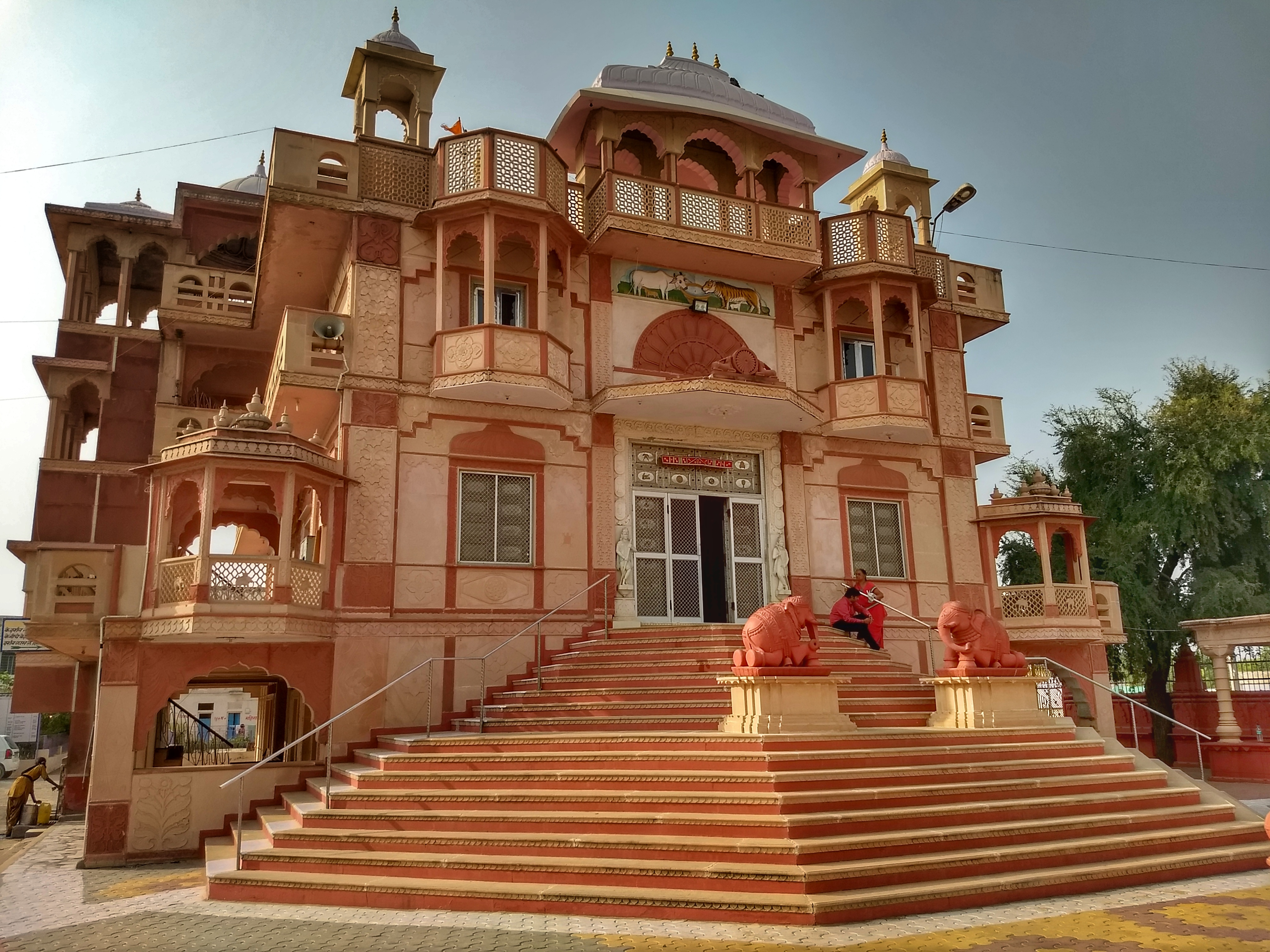 Shantinath Jinalaya at Mahaveerji